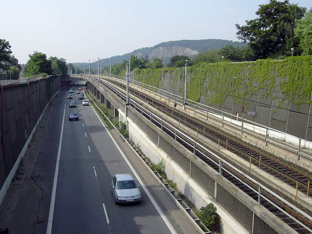 Ramp of the Siebengebirgsbahn over the federal road 42 in Königswinter-Oberdollendorf.